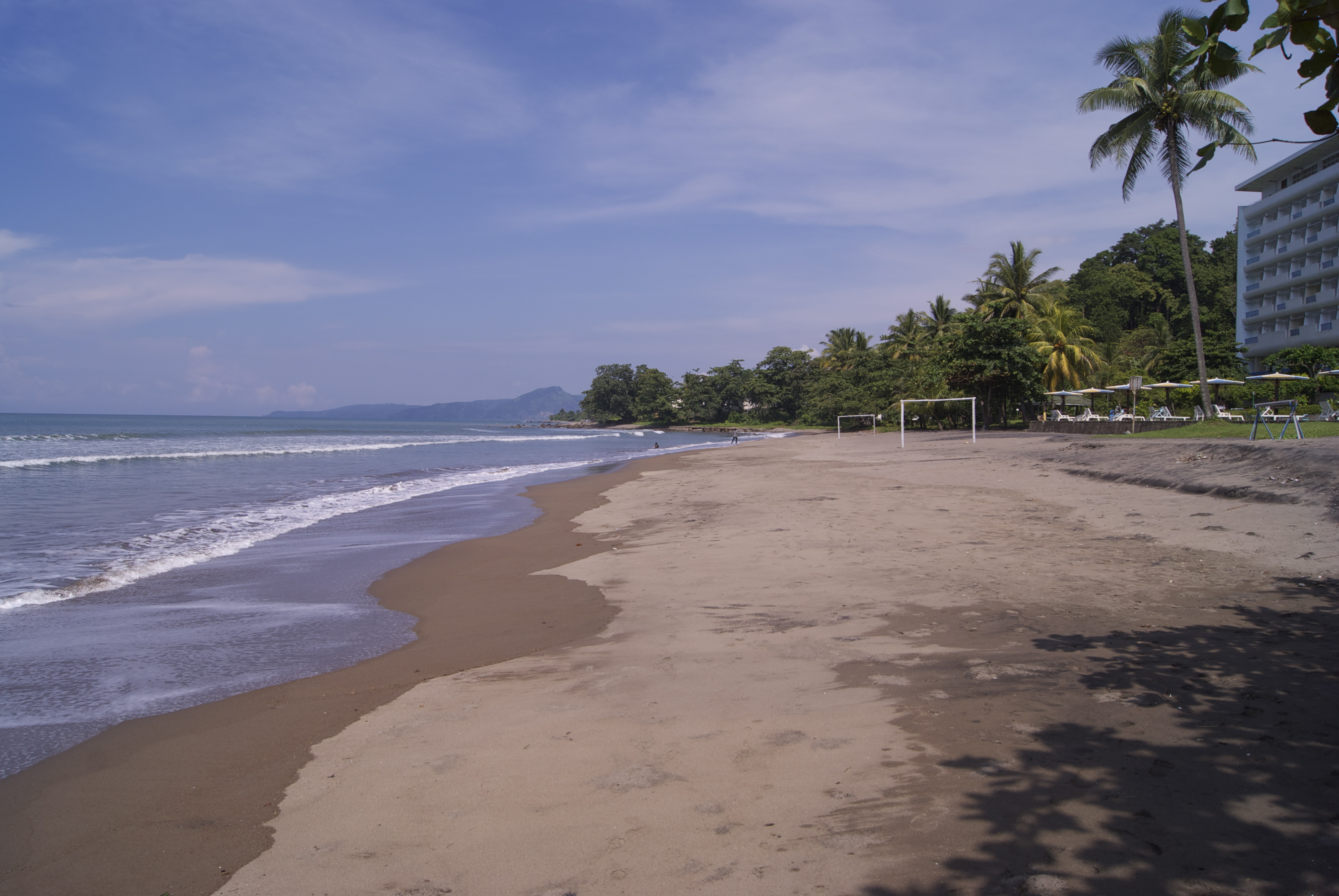 Pelabuhan Ratu Beach, Sukabumi Regency, West Java